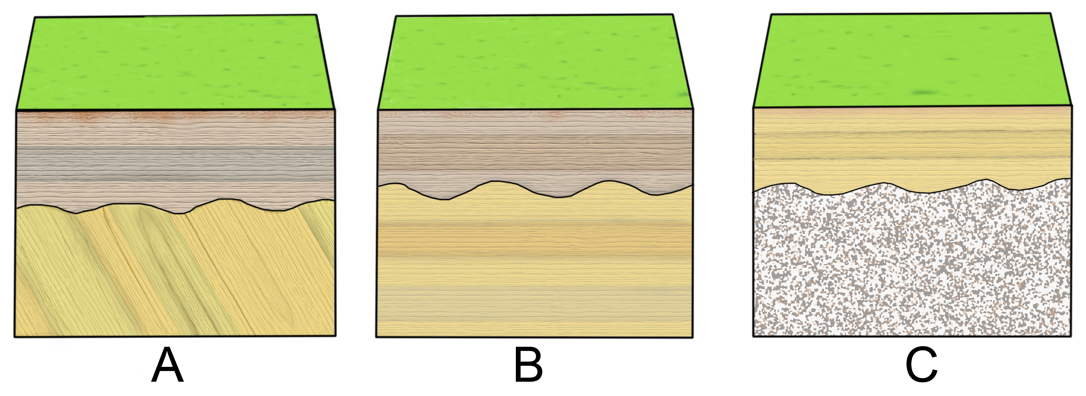 Block diagrams of three types of stratigraphic relations: A: an angular unconformity; B: a disconformity; C: a nonconformity.